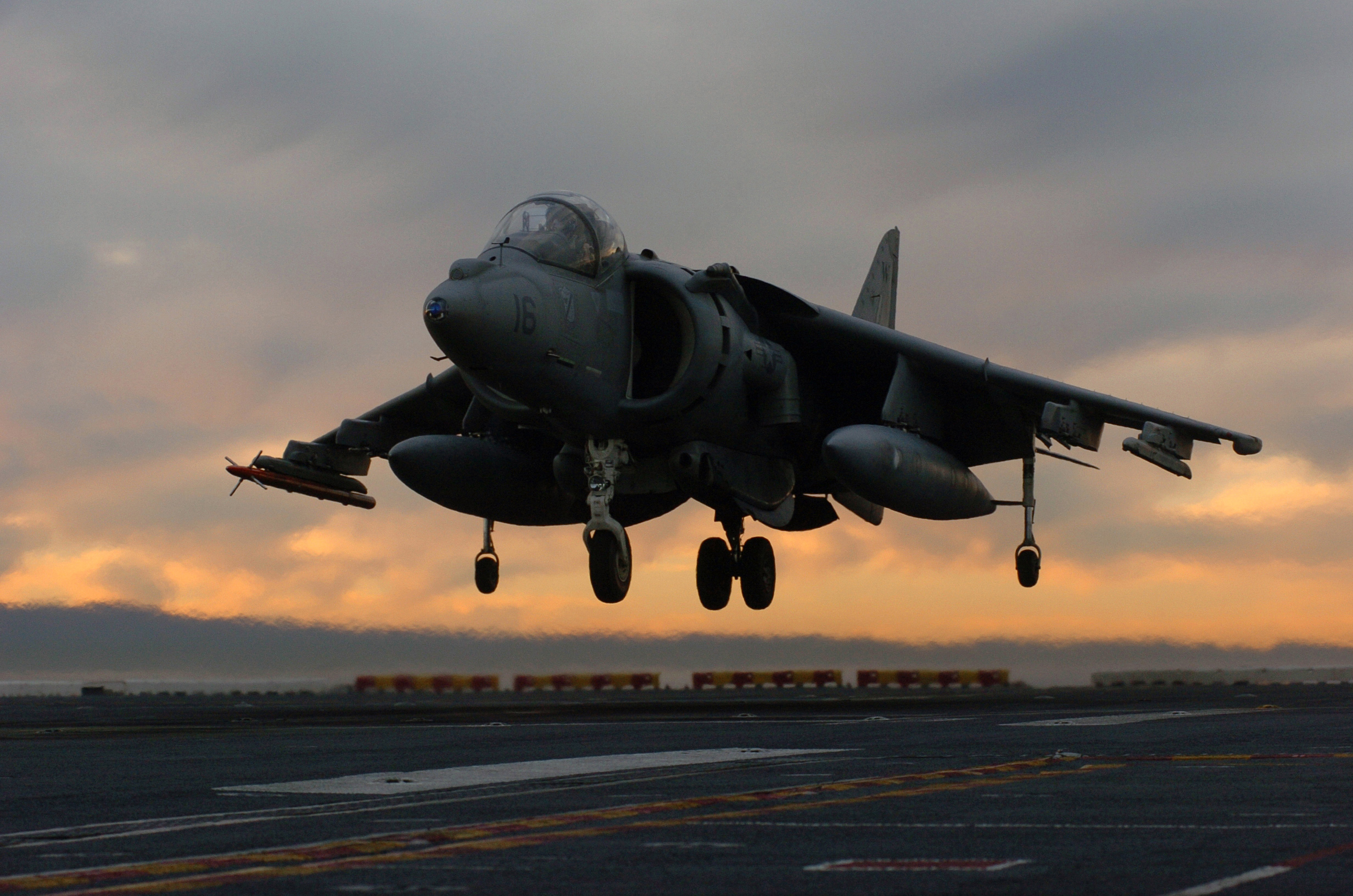 Pacific Ocean (Dec. 10, 2005) - An AV-8B Harrier, assigned to the “Blacksheep” of Marine Attack Squadron Two One Four (VMA-214), lands on the flight deck of the amphibious assault ship USS Peleliu (LHA 5). Peleliu and Expeditionary Strike Group Three (ESG-3) are underway off the coast of Southern California conducting Composite Unit Training Exercise (COMPTUEX) in preparation for an upcoming scheduled deployment. U.S. Navy photo by Journalist 2nd Class Zack Baddorf (RELEASED)